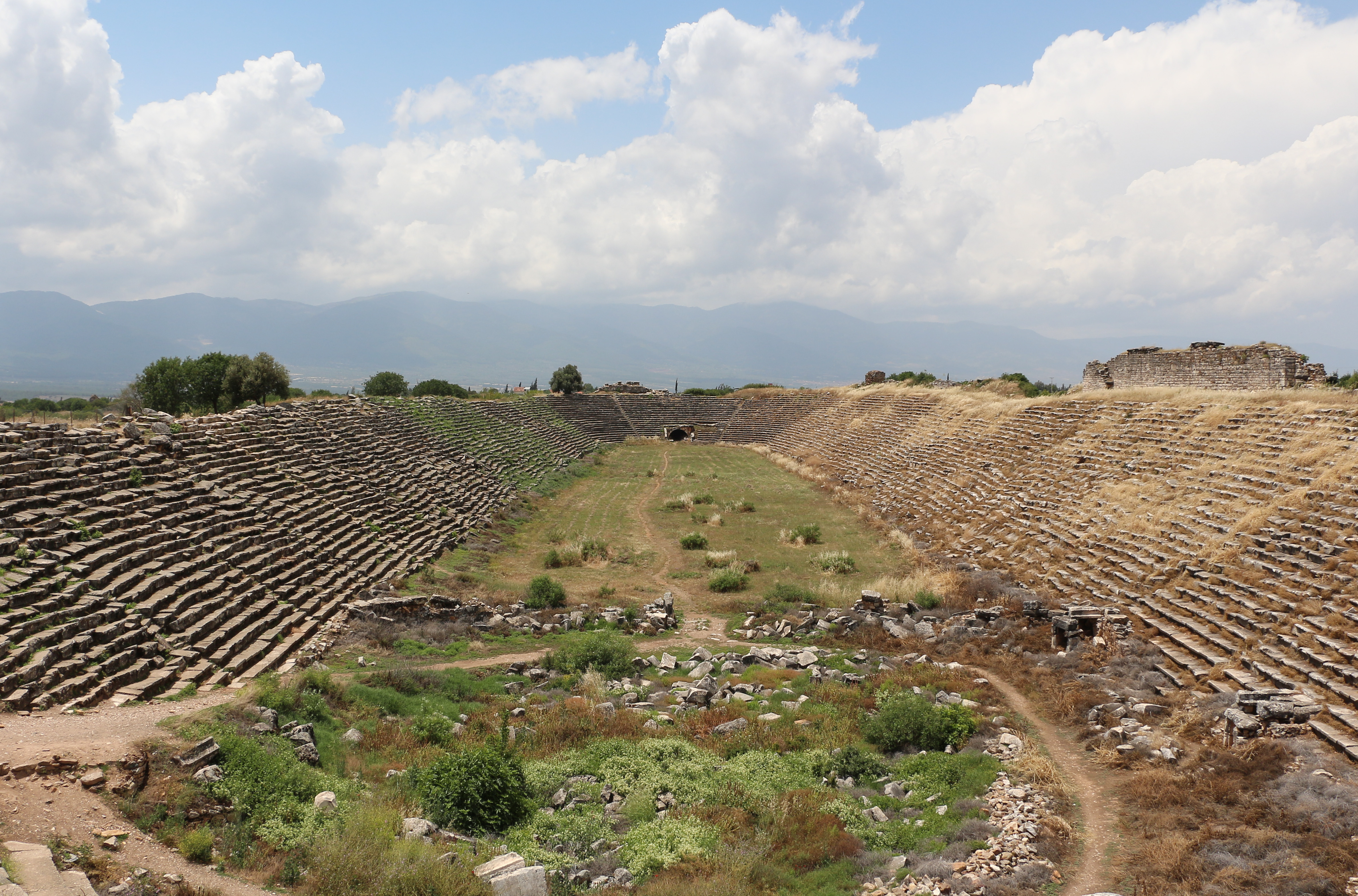 Stadium of Aphrodisias, Turkey